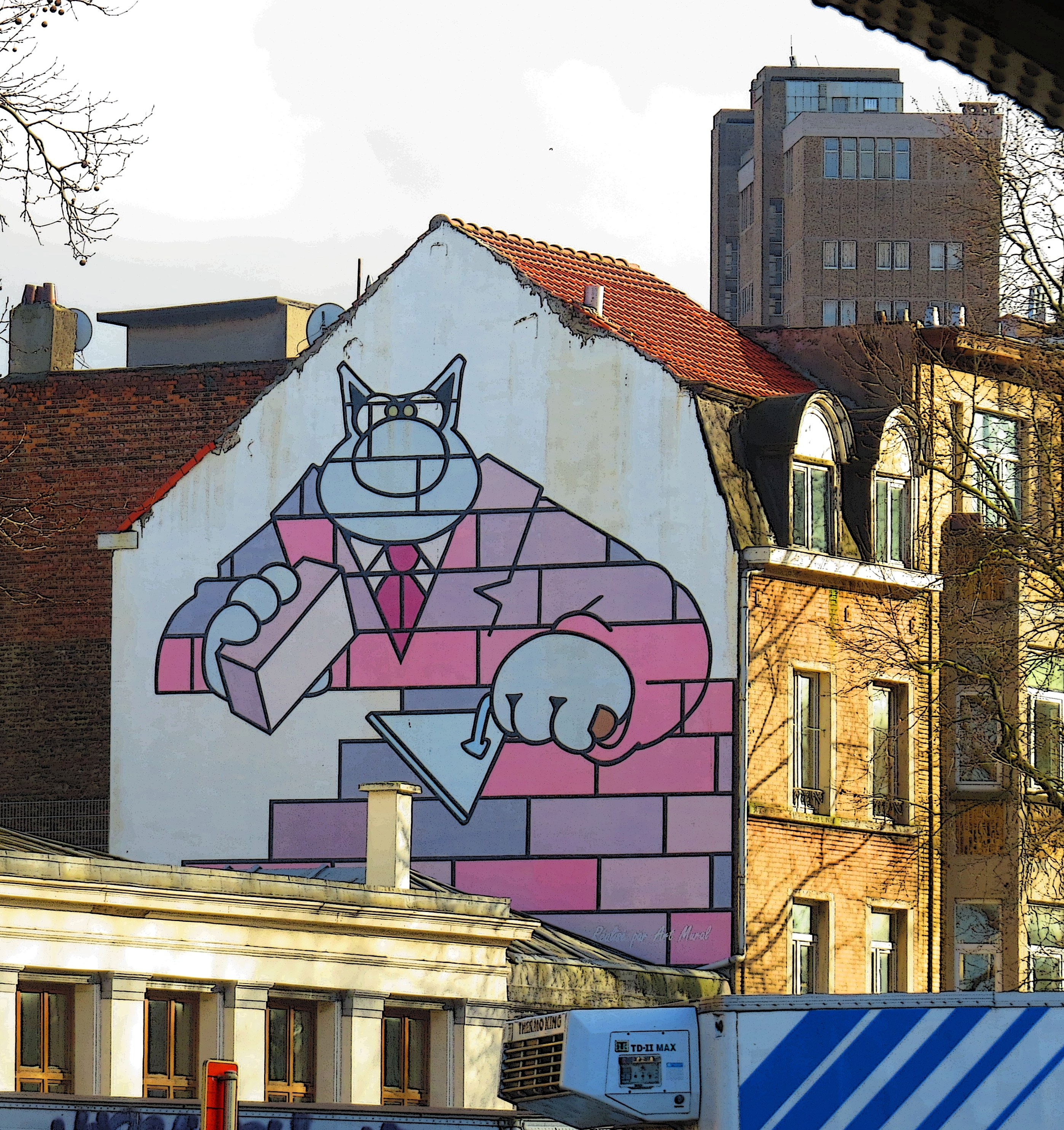 Le Chat. Build Your Own Wall Mural near the Station du Midi, Brussels, Belgium